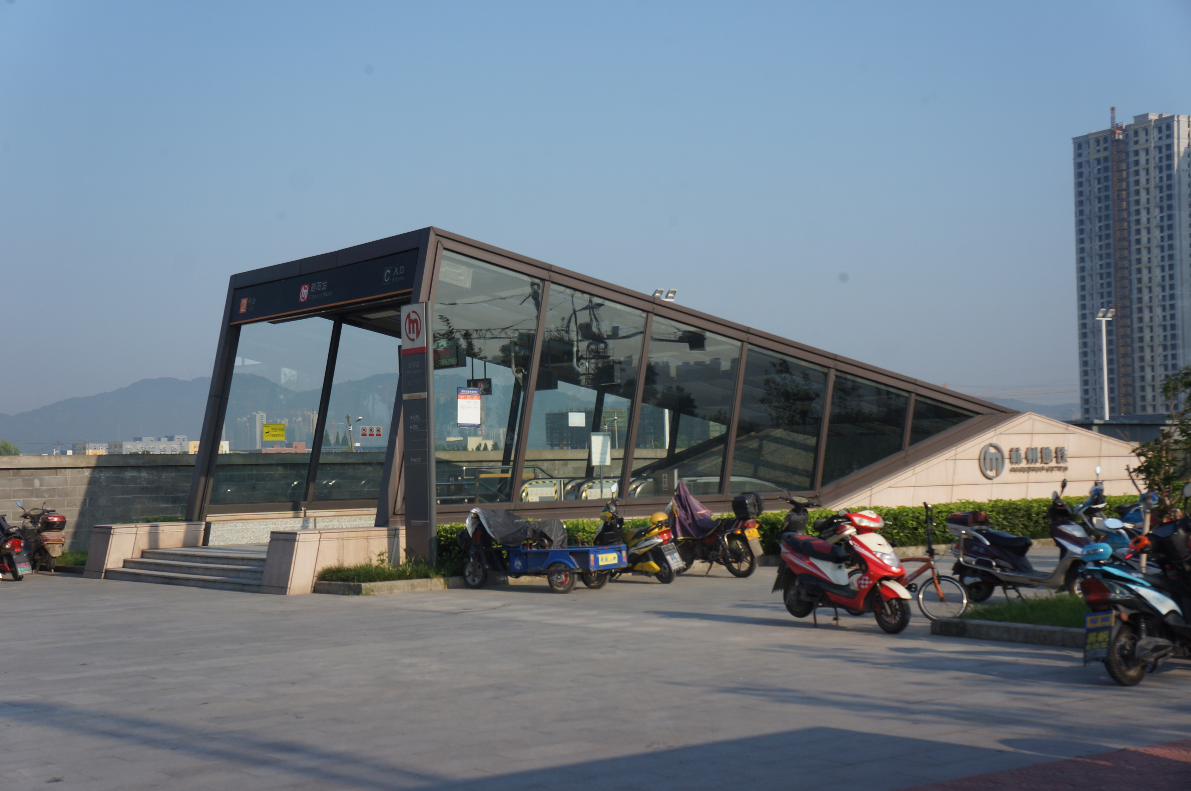 201607 Exit C of Chaoyang Station